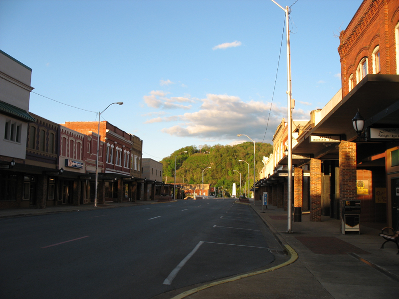 Historic downtown Elizabethton, Tennessee.